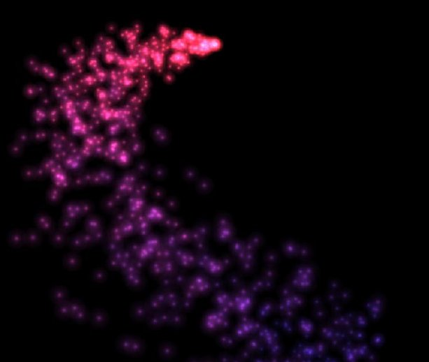 A particle system used to render a colorful trail.